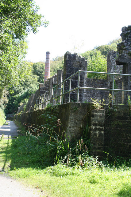 The disused New Consolidated clay driers Open pan driers, the clay then being shipped by railway down to Ponts Mill to be further processed and shipped